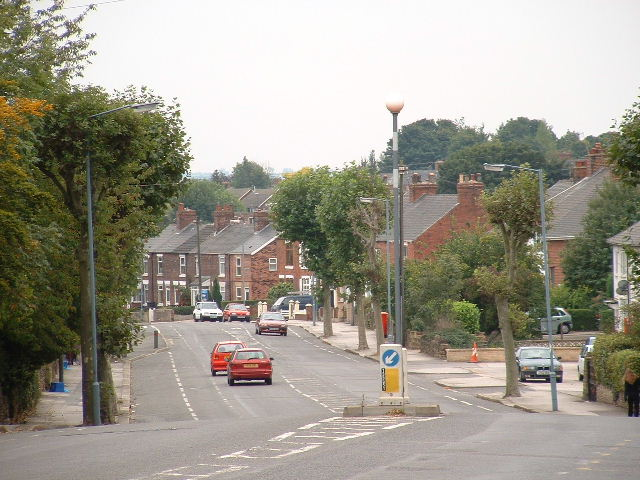 Newbold Road, Chesterfield. Looking SW